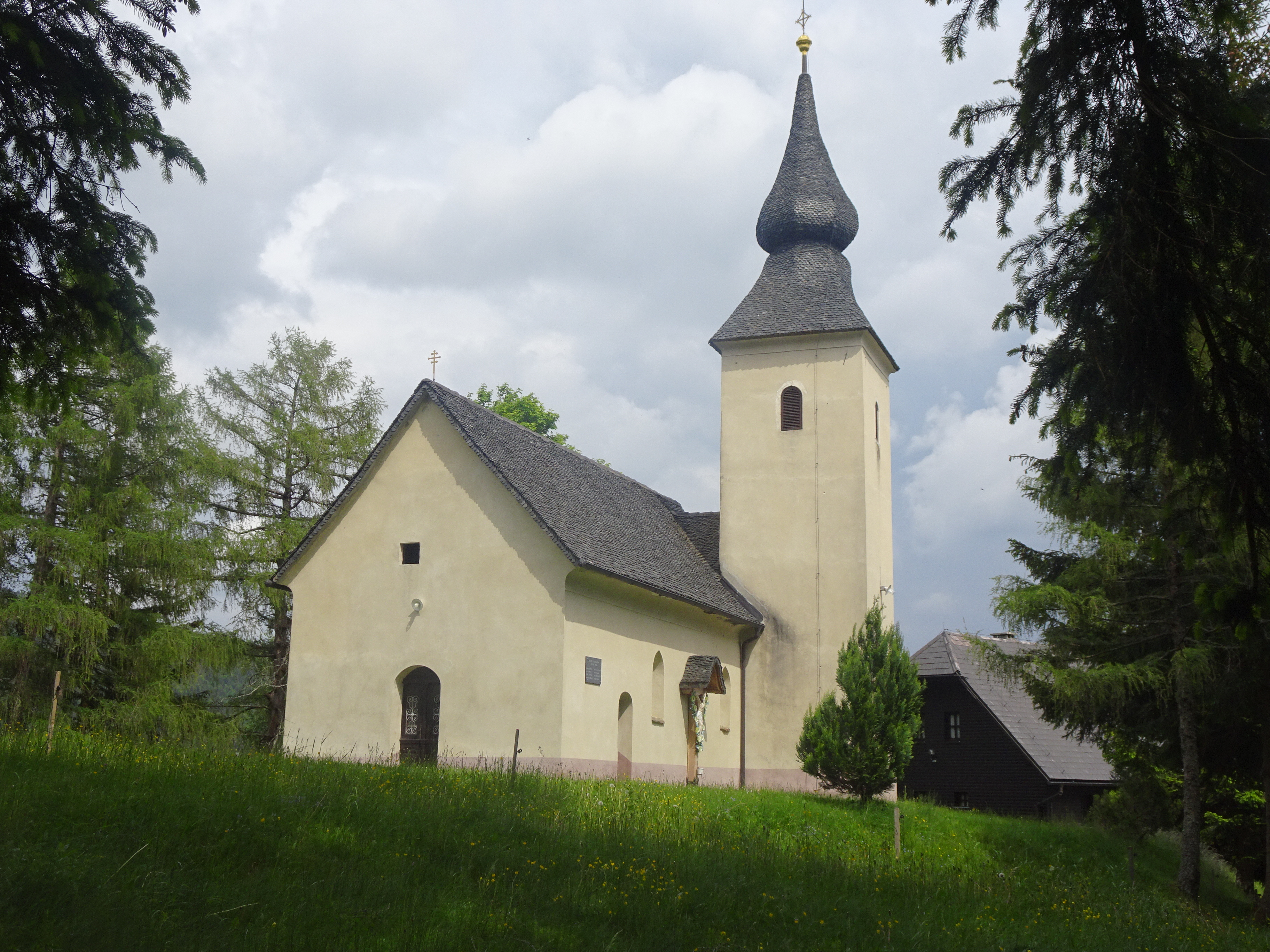 st. Jakob church at Resnik, Slovenia